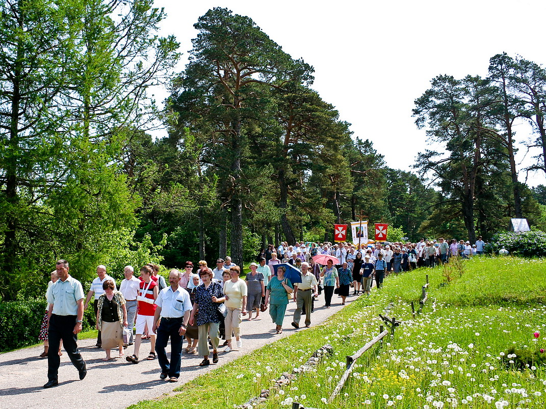 A Calvary procession in Vepriai, Lithuania during the Pentecost